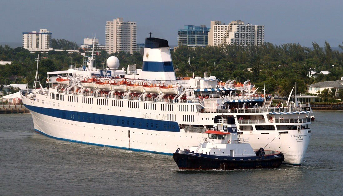 IMO number : 5262835 Name of ship : REGAL EMPRESS Call Sign : C6LW2 Gross tonnage : 21909 Type of ship : Passenger (Cruise) Ship Year of build : 1953 Flag : Bahamas Status of ship : Dead Last update : 2009-06-09